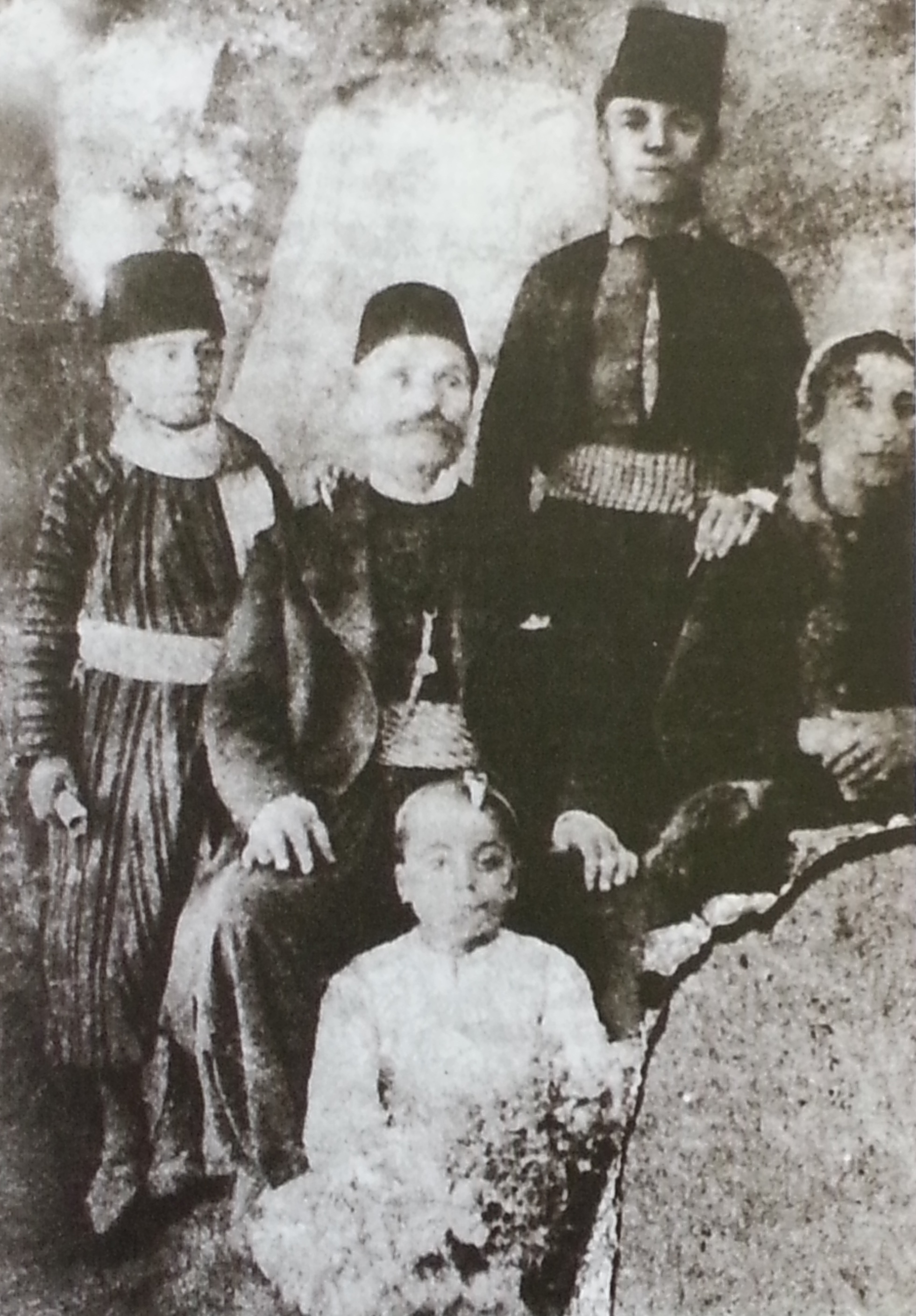 Family of Gibran Khalil Gibran, left to right: Gibran, the father khalil, Boutros, and Kamila. Bottom of the photo: Sultana.